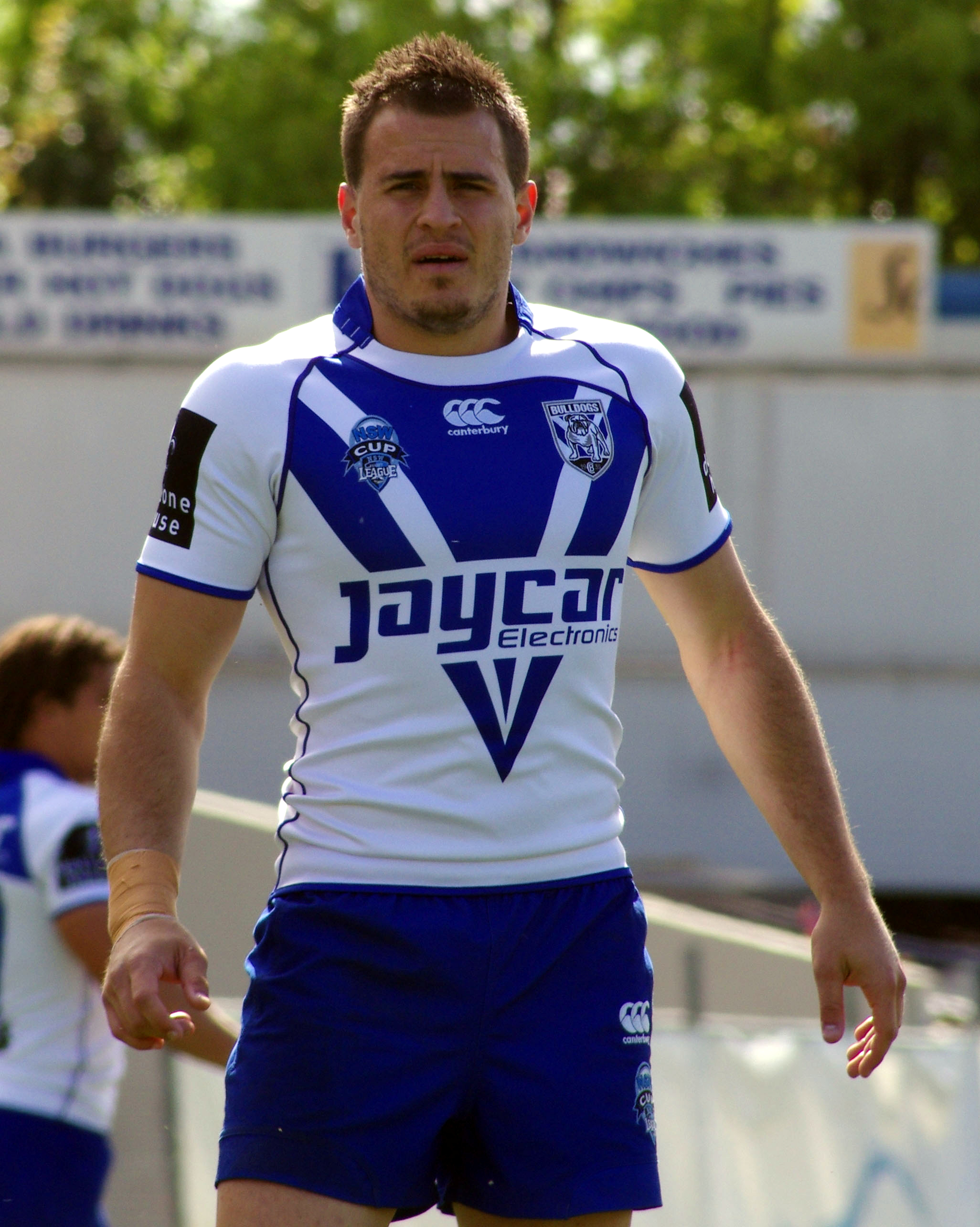 Josh Reynolds